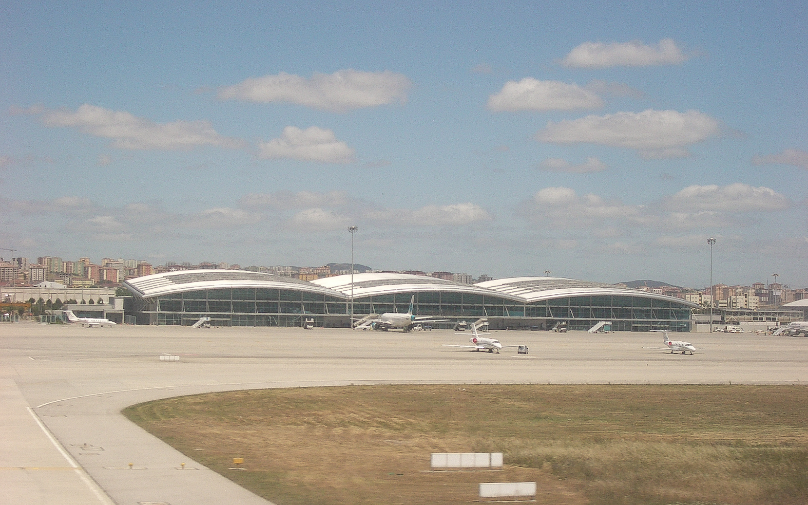 Sabiha Gökcen Airport